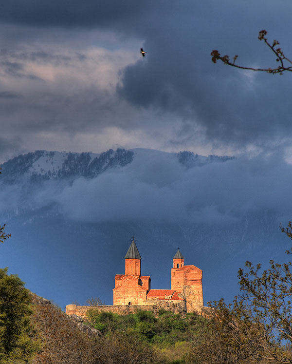 Gremi